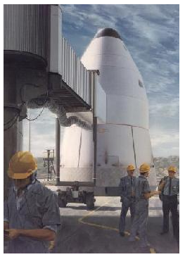 One of the mixed fuel version of the phoenix in a artistic raffiguration